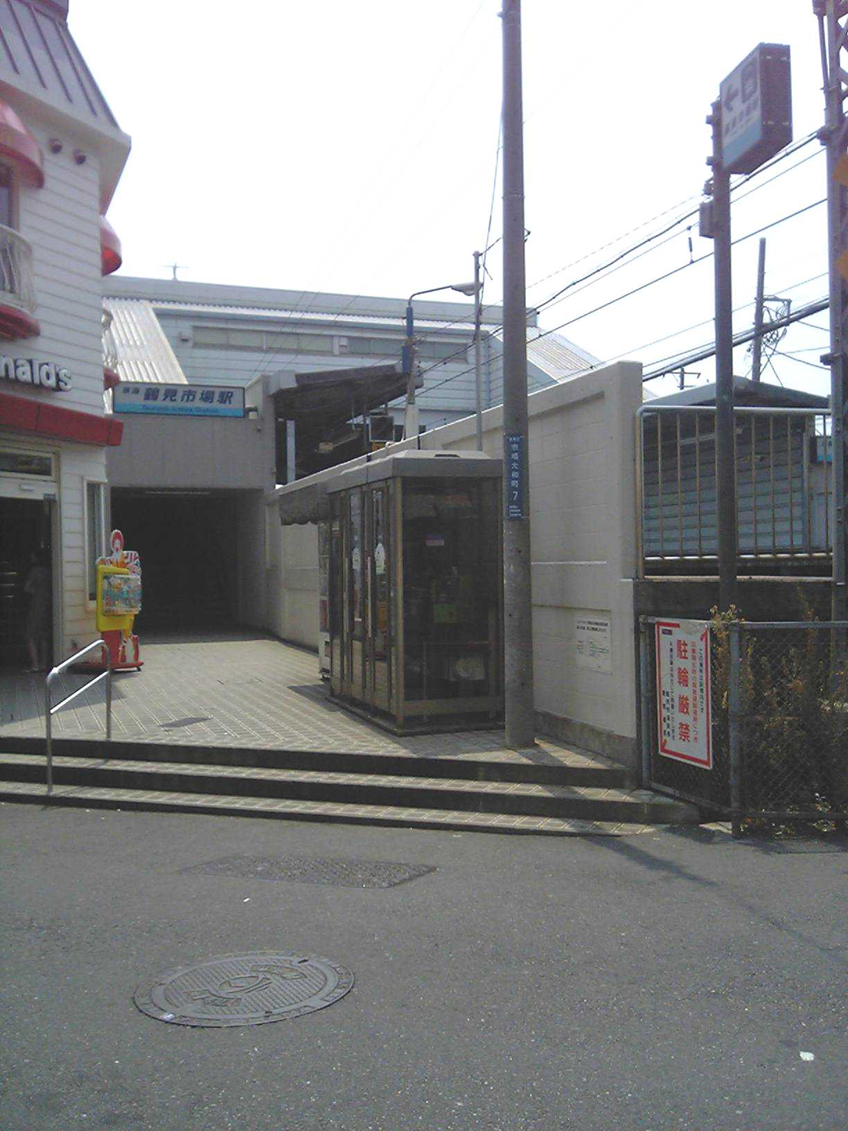 Tsurumiichiba station